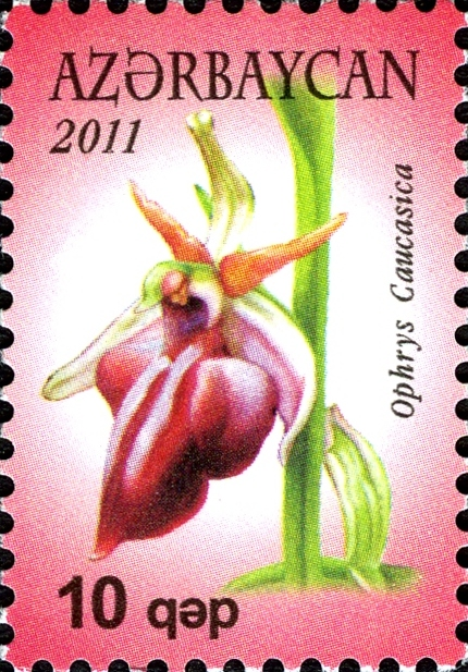 Garabagh flowers - II. Definitive issue.